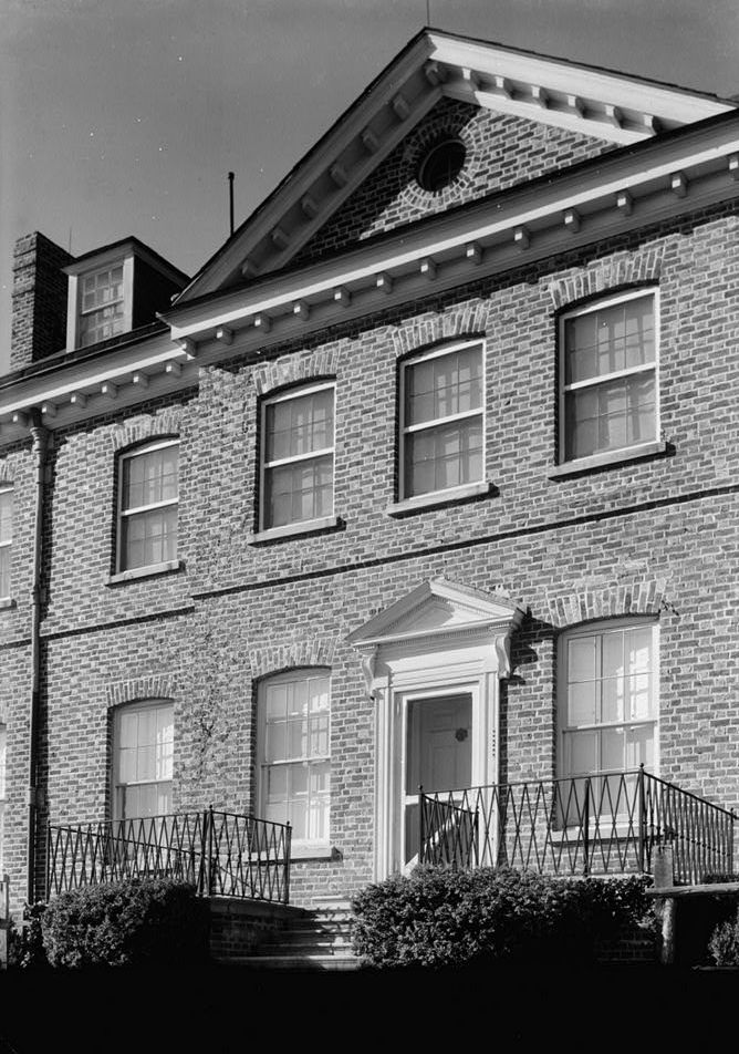 Central portion, south side of Belair Mansion Plantation, in Collington, Maryland. On the National Register of Historic Places. Image courtesy of the federal HABS—Historic American Buildings Survey of Maryland.